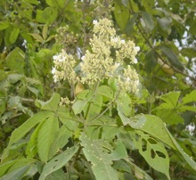 Vitex pinnata